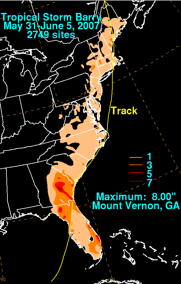 Rainfall produced by Tropical Storm Barry during May and June 2007.